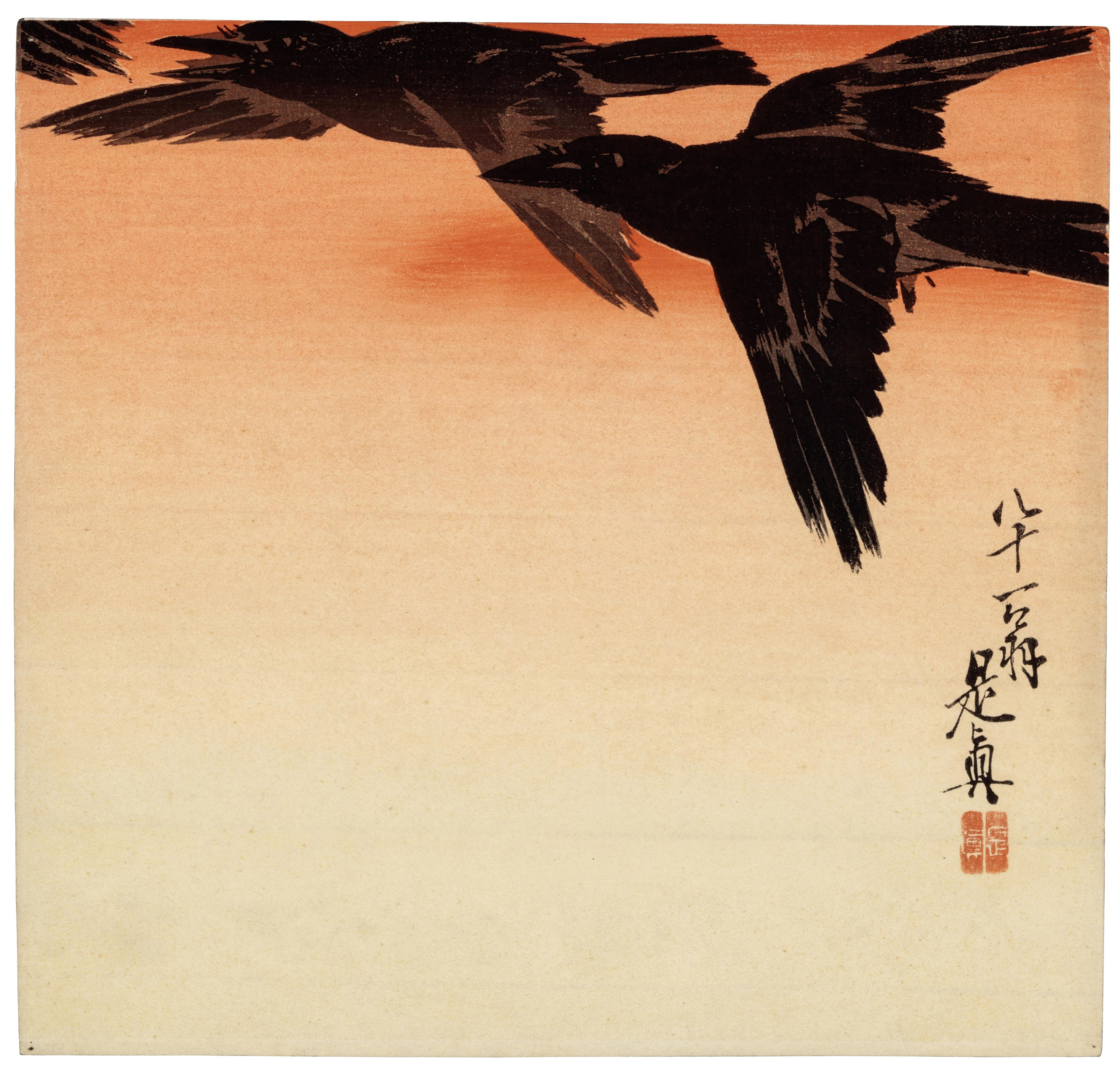 Crows Fly by Red Sky at Sunset Portfolio/Series: from the Series Hana Kurabe Medium: Woodblock color print Period: Meiji Period Dimensions: 9 x 9 5/16 in. (22.9 x 23.7 cm) Signature: Signed: "Zeshin" Collections:Asian Art Museum Location: Brooklyn Museum Accession Number: 2007.32.102 Credit Line: Gift of the estate of Dr. Eleanor Z. Wallace